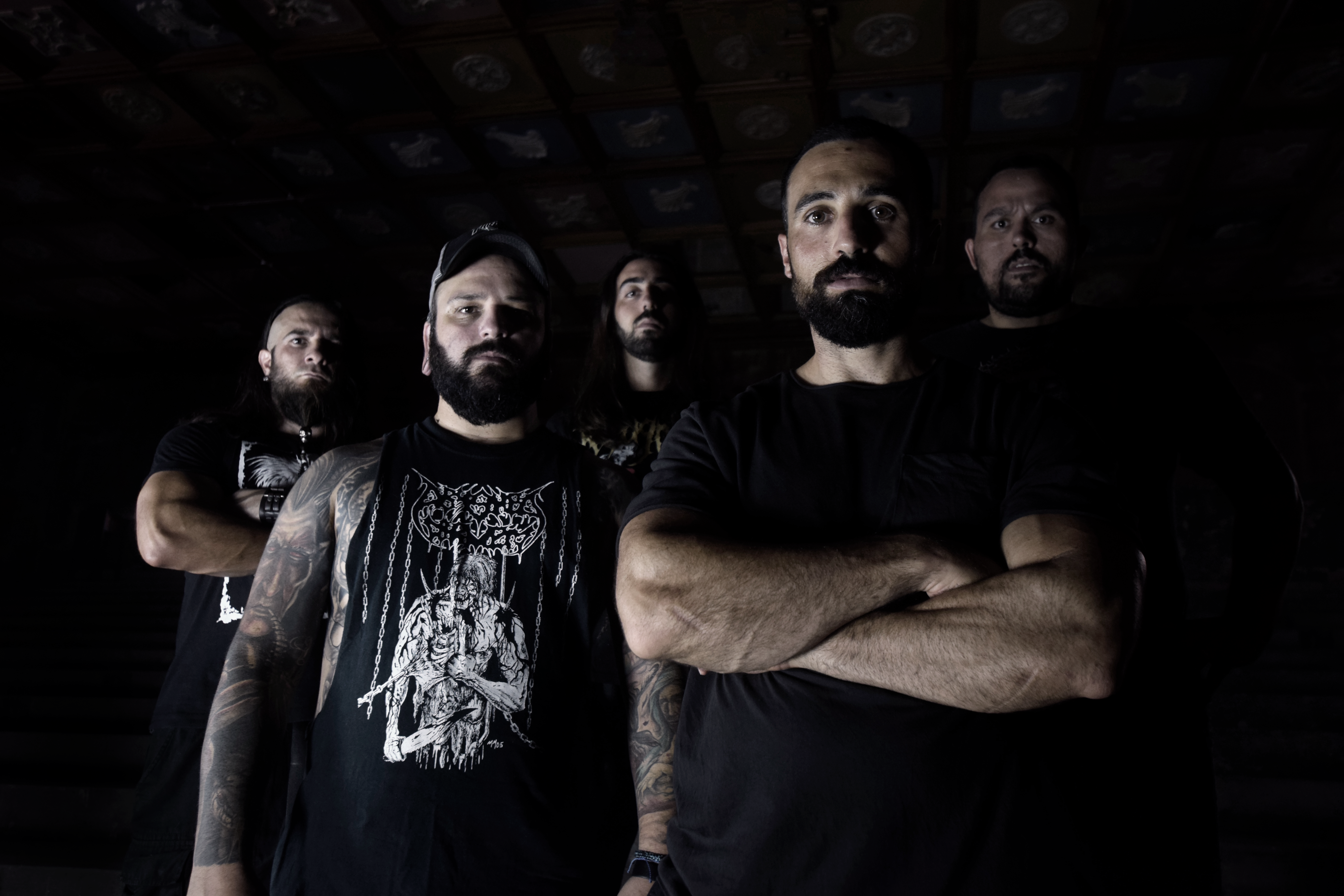 Abysmal Torment Line Up 2018